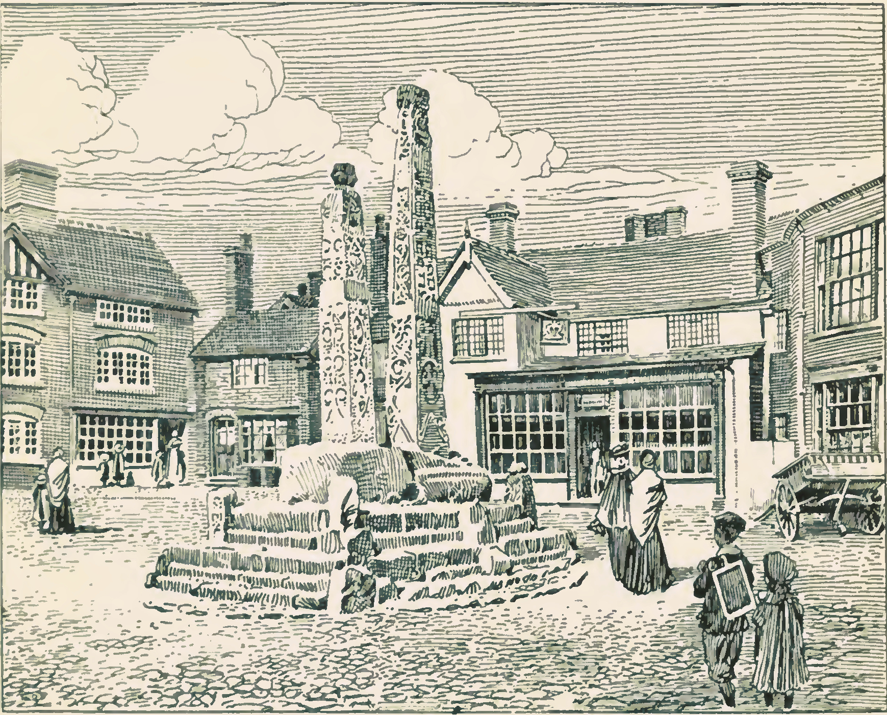 Sandbach Crosses c.1903, illustrated by English artist Roger Oldham (1871 - 1916)[1], from the book Picturesque Cheshire (1903) by Thomas Alfred Coward (1867-1933), page 322.